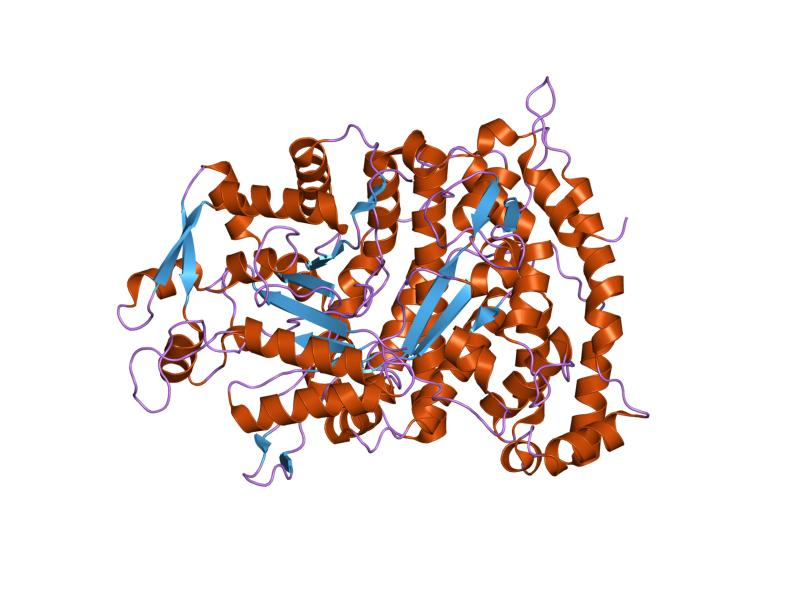 Cartoon representation of the molecular structure of protein registered with 1pem code.